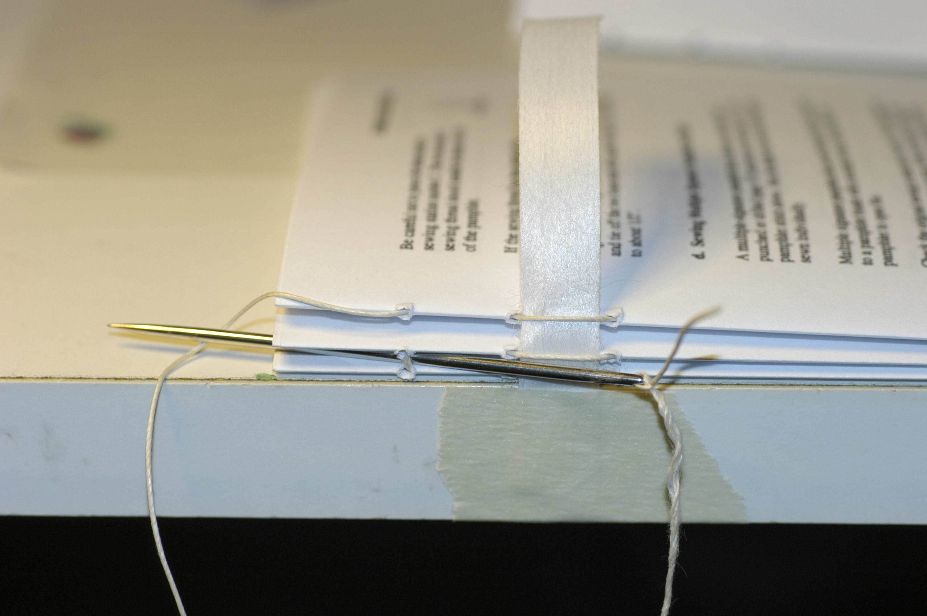 (Bookbinding) How to tie the thread